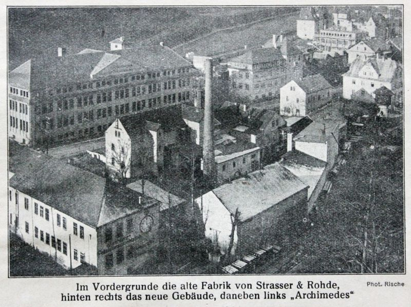 Clock factory Strasser & Rohde